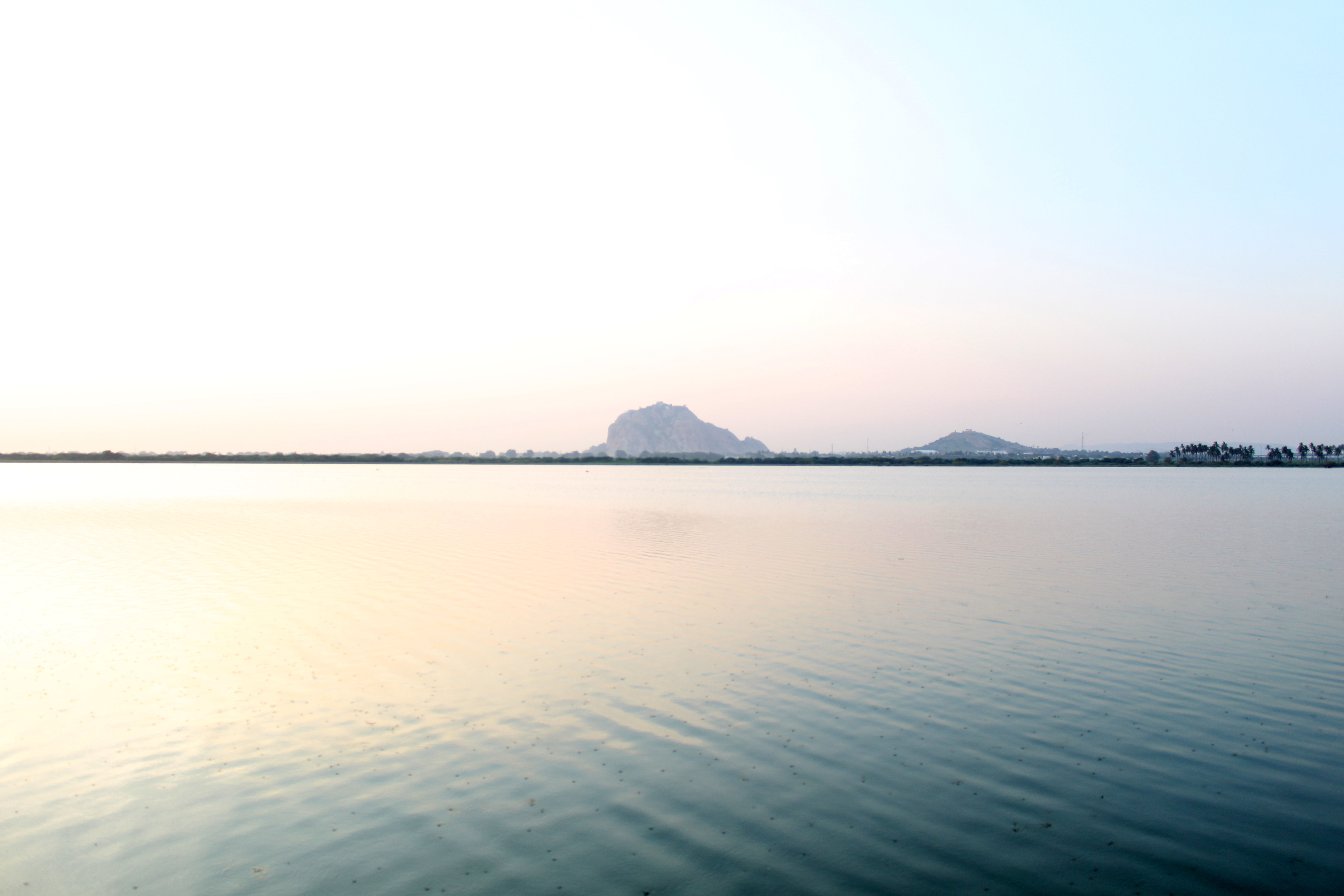 This is the Avaniapuram Water Reservoir, one of the largest in Madurai.